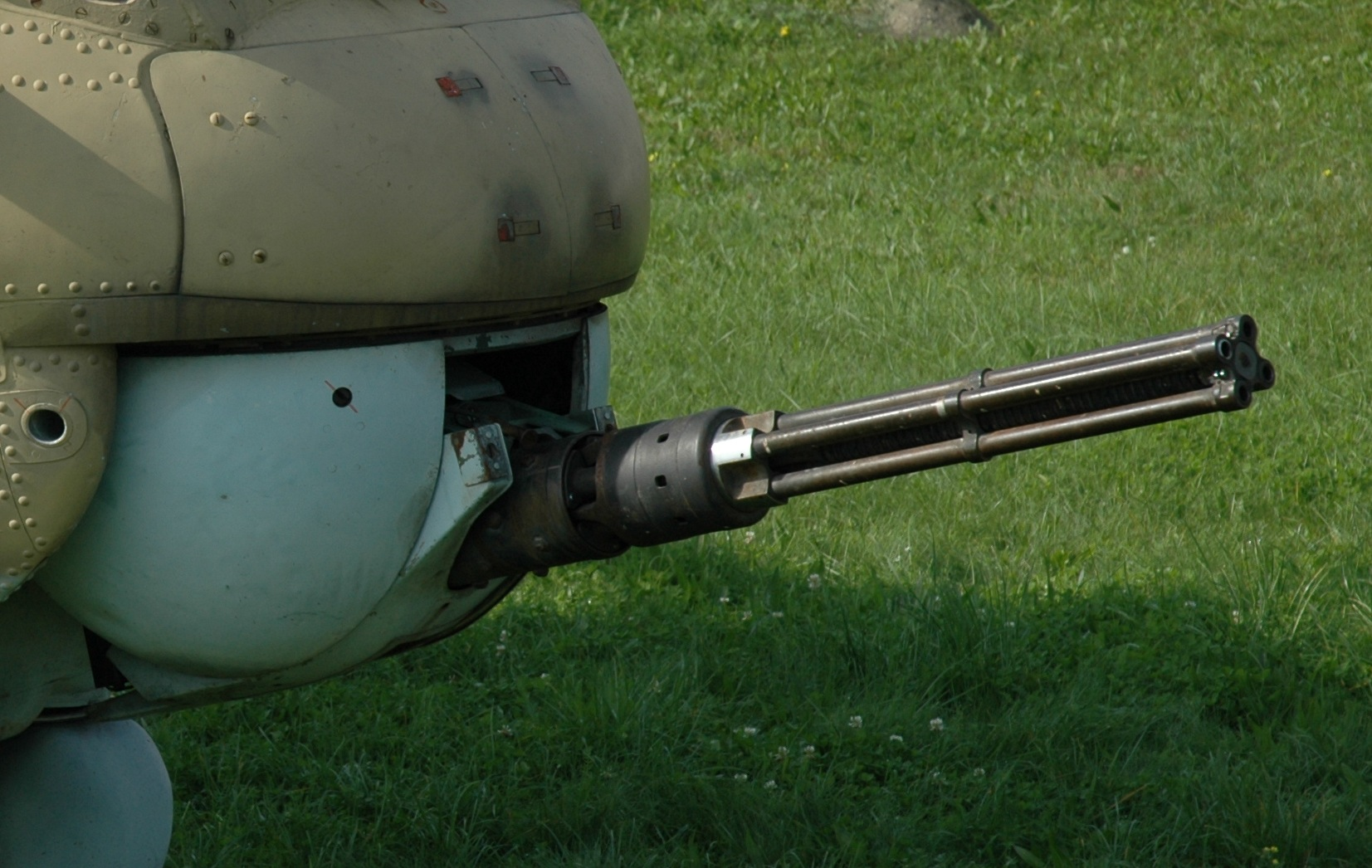 Yakushev-Borzov YakB-12.7 machine gun on Mi-24 helicopter (Museum of HuAF, Szolnok, Hungary)